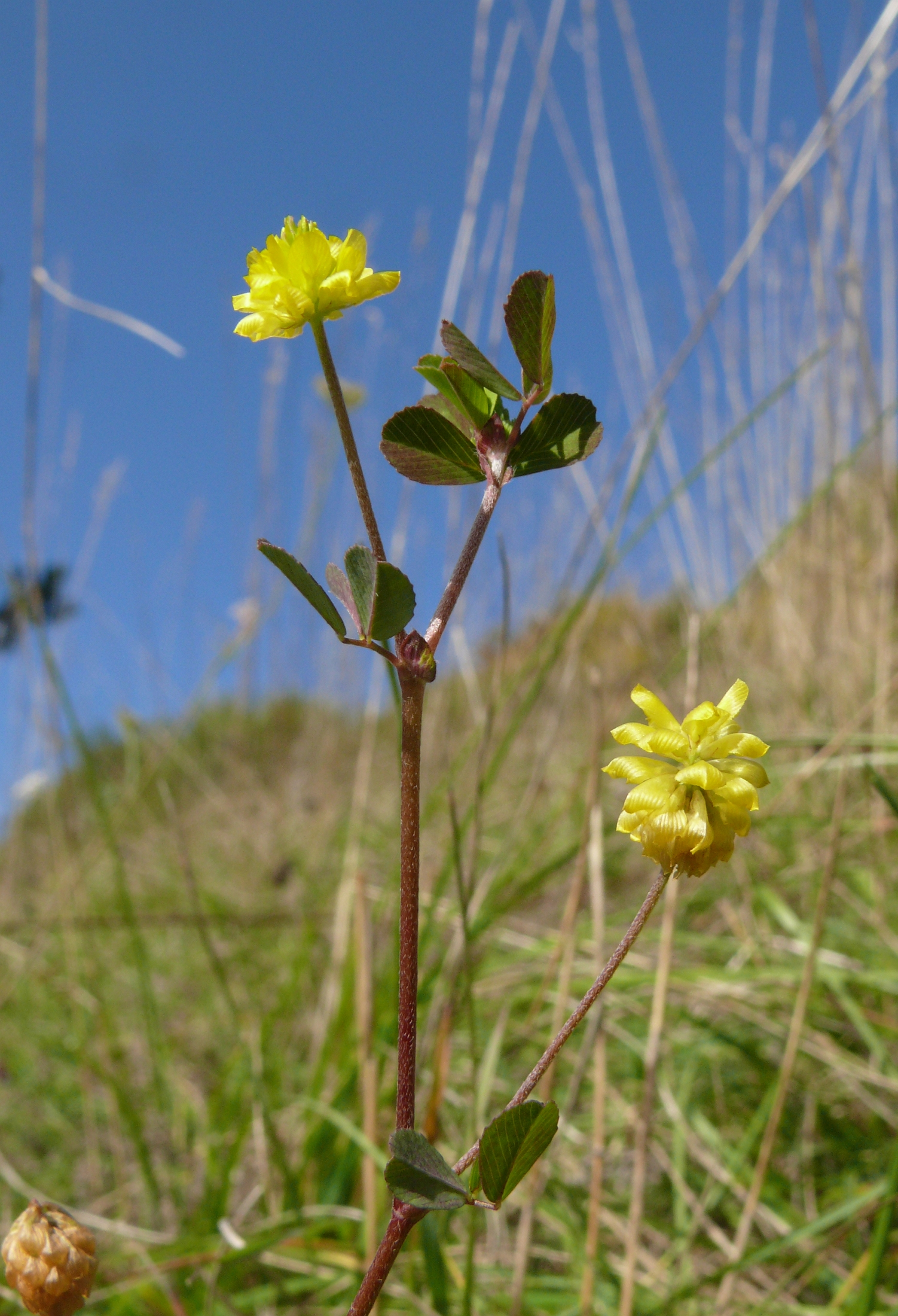 Trifolium campestre, Härtsfeld, Germany